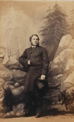 Portrait of Herbert Richard Peel (1831–1885), English cleric.